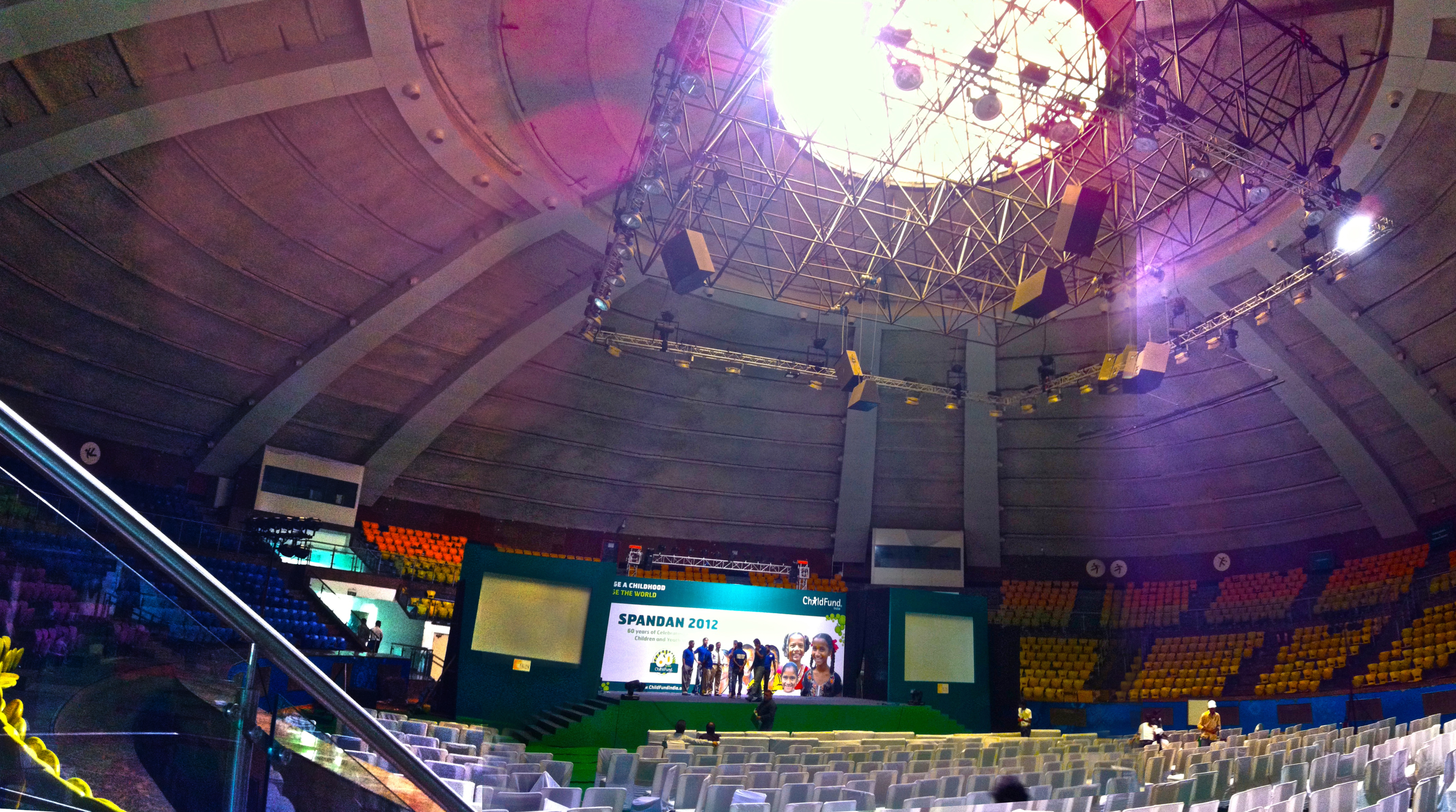 Talkatora stadium, New Delhi, Delhi. 3 pictures were joined to create a large picture capturing the inner side of the stadium. This media file is uploaded with Odia loves Wikipedia English |italiano |македонски |മലയാളം |ଓଡ଼ିଆ +/− ଓଡ଼ିଆ: ତାଳକଟୋରା ଷ୍ଟେଡିଅମ, ନୁଆଦିଲ୍ଲୀ, ଇଣ୍ଡିଆ ।